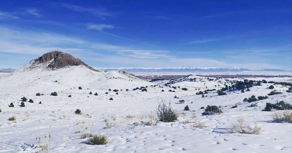 Lookout Mountain (or 'D' Mountain as it is known locally) in the foreground, with the Sangre de Cristo Range and the Great Sand Dunes in the background. You can see the tree line on the eastern-edge of Del Norte at the base of the hills near the middle of the picture.